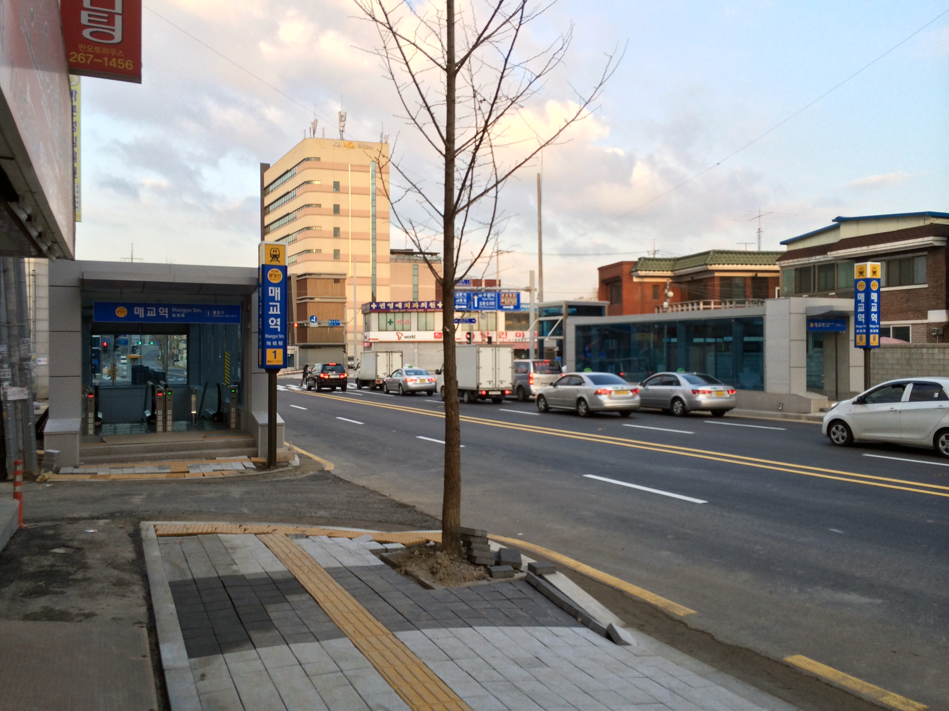 1st exit of Maegyo Station